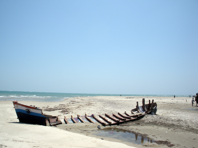 Wrecked fishing boat at Lands End, Dhanushkodi.